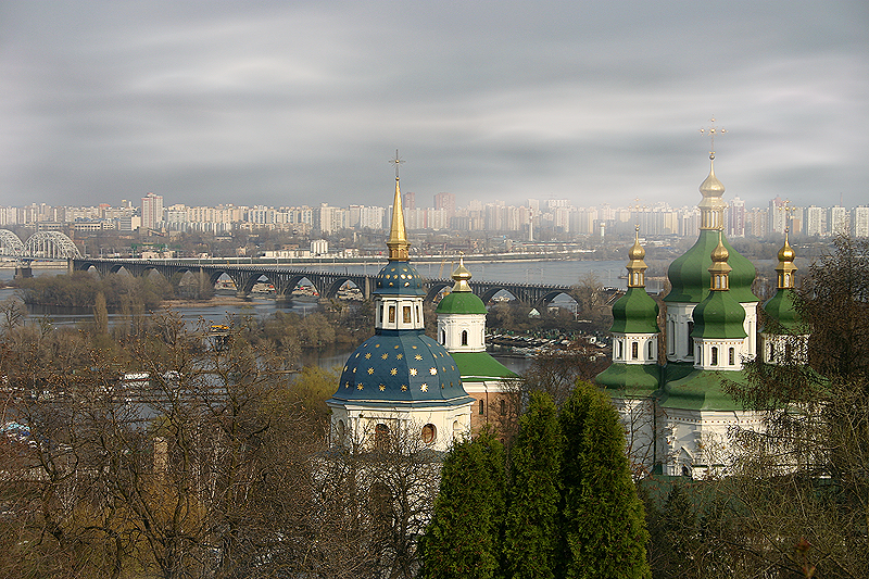 Vydubychi Monastery in Kiev, Ukraine